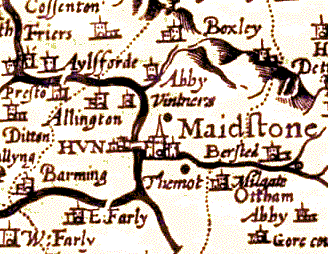 Antique map extract circa 1616-1660, avaiable various reproduction websites.